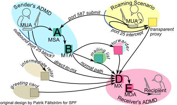 A schematic representation of the most common ways that an email message can get transferred from its author to its recipient. Freely derived from Patrik Fältström work for SPF, available at SVG version available here.